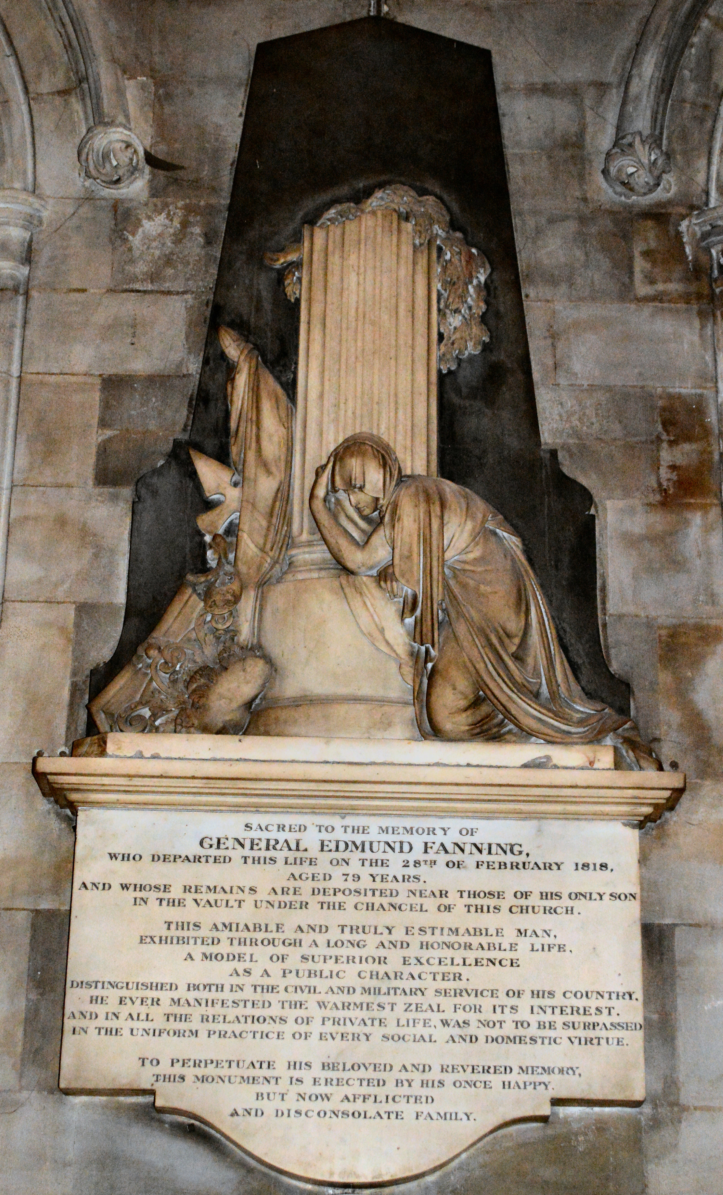 St Mary Abbots Church, General Edmund Fanning memorial